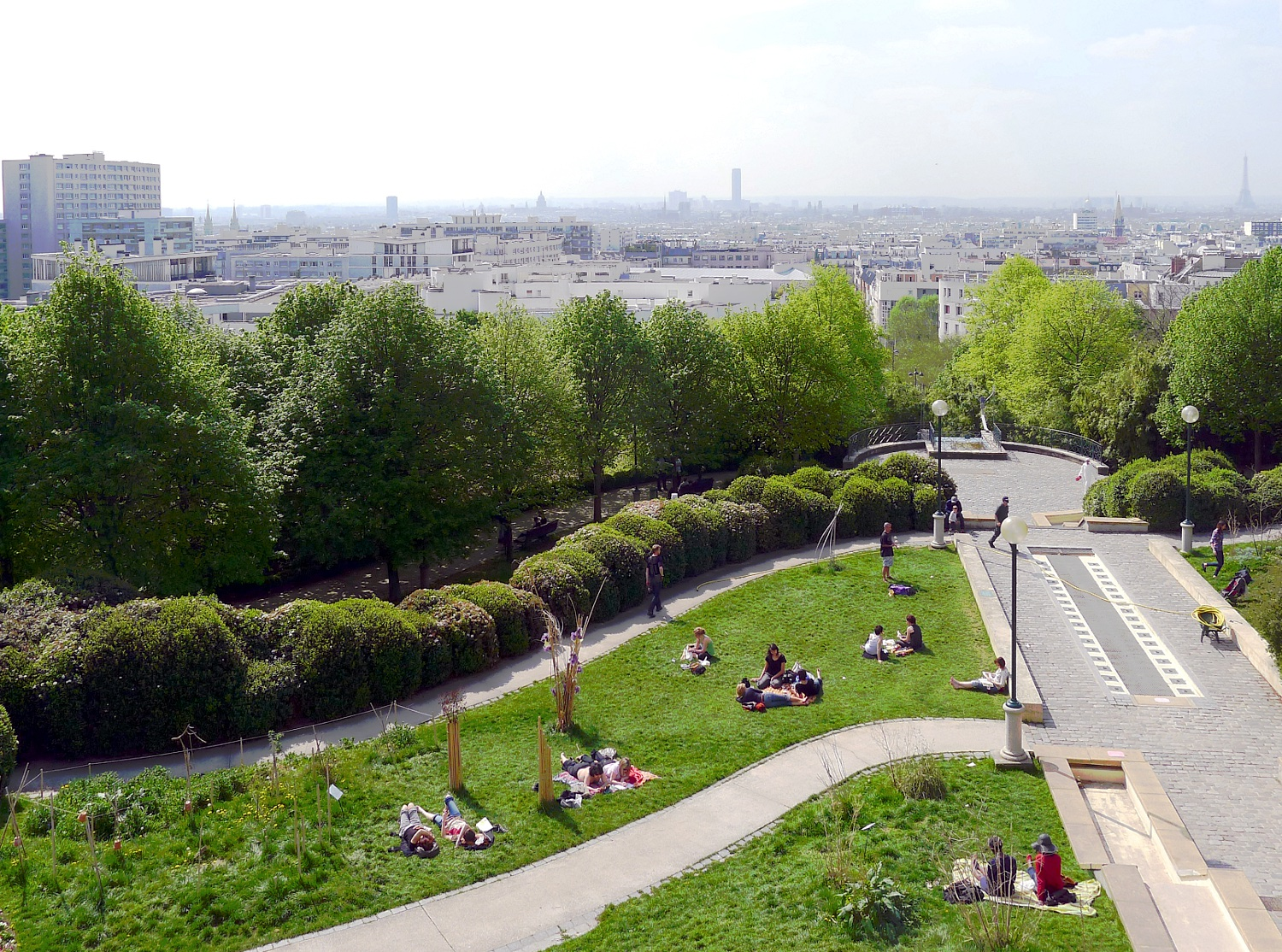 Belleville parc - Paris